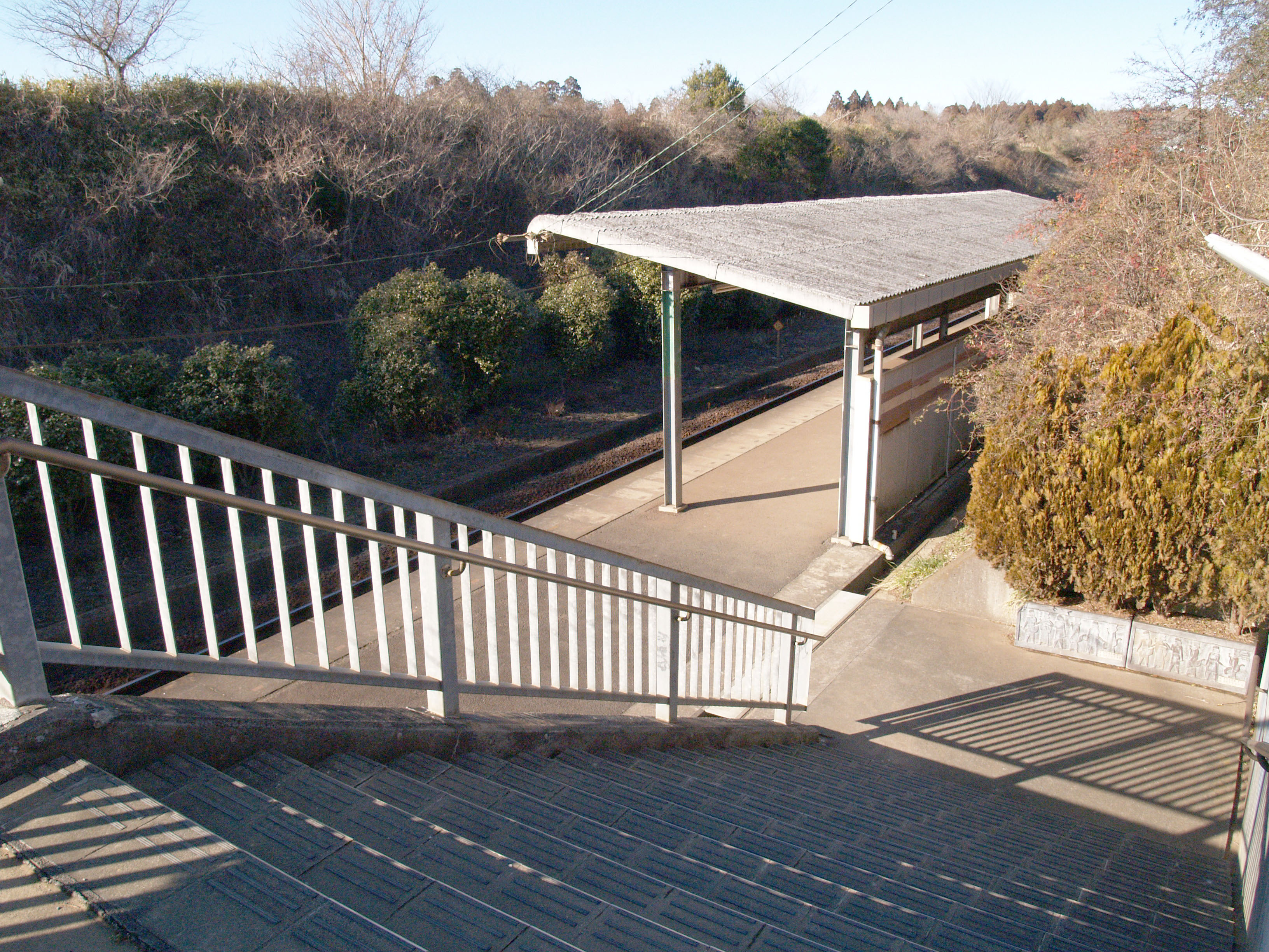 Tokushuku Station